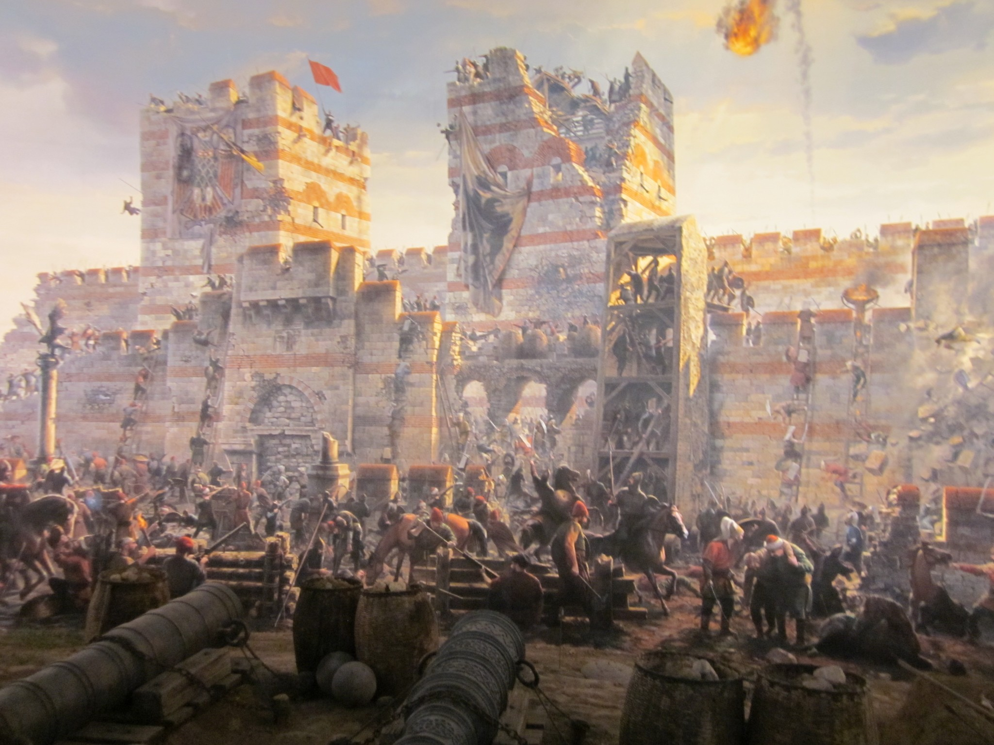 Panorama 1453 History Museum